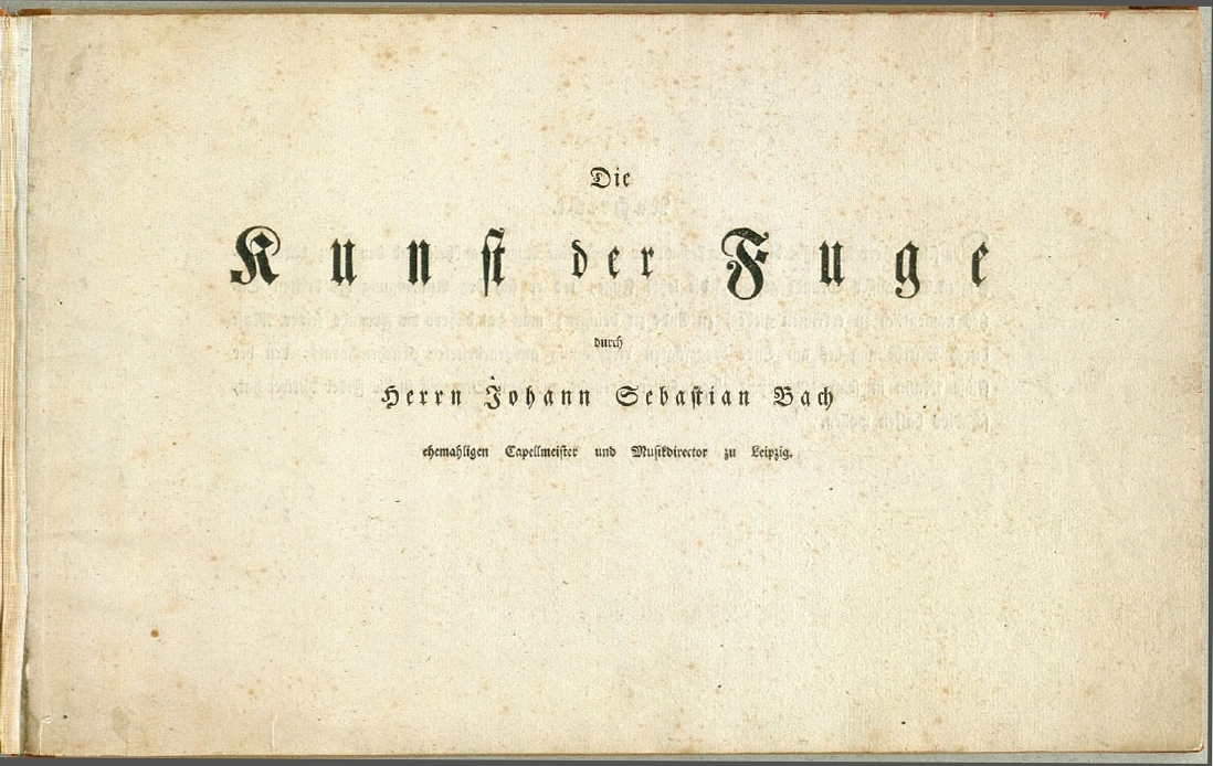 The title page of the first edition (Schübler, Zella, 1751) of "The Art of Fugue" BWV 1080 by Johann Sebastian Bach.